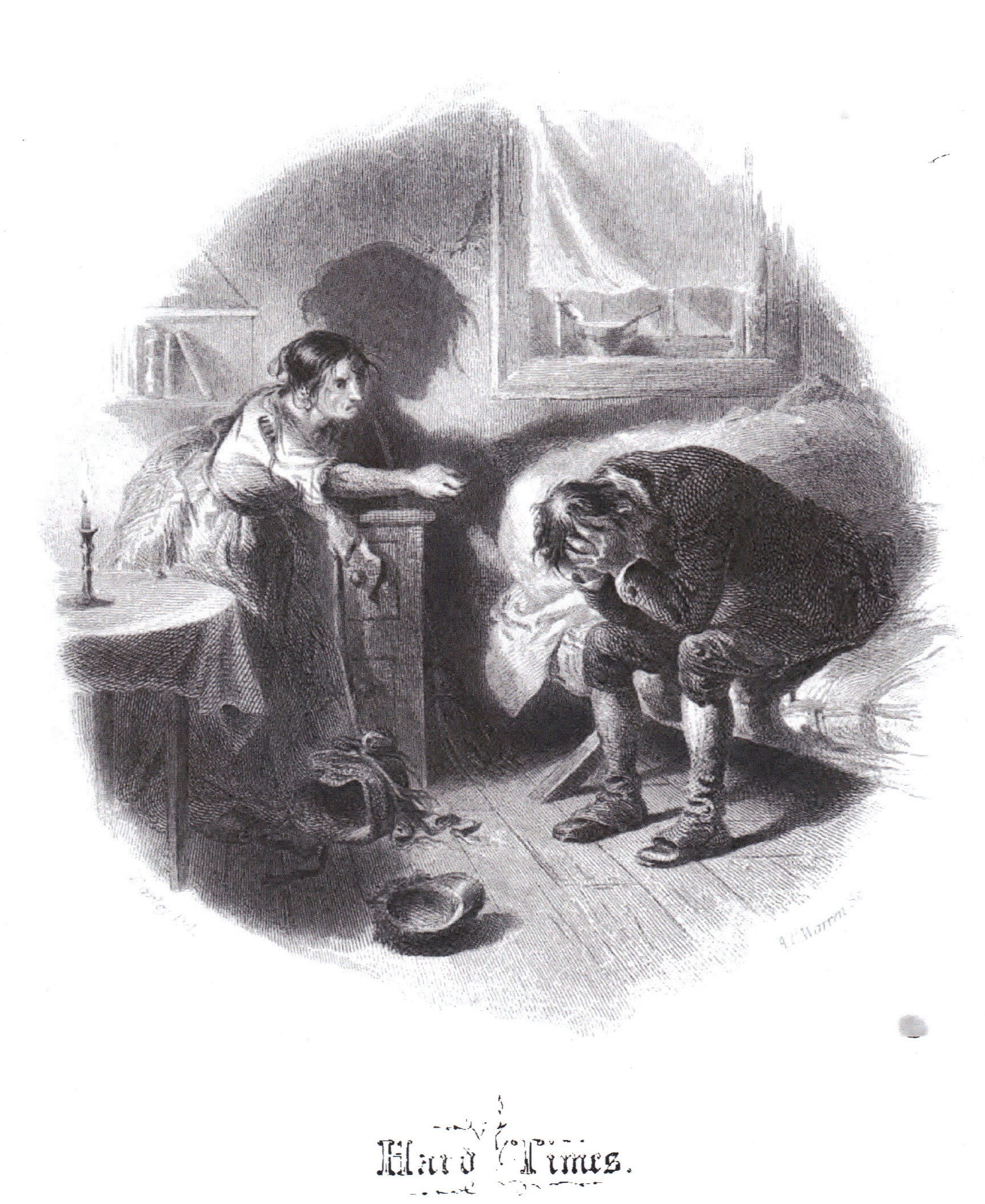 Engraving of a 1863 edition of Hard Times (Dickens)